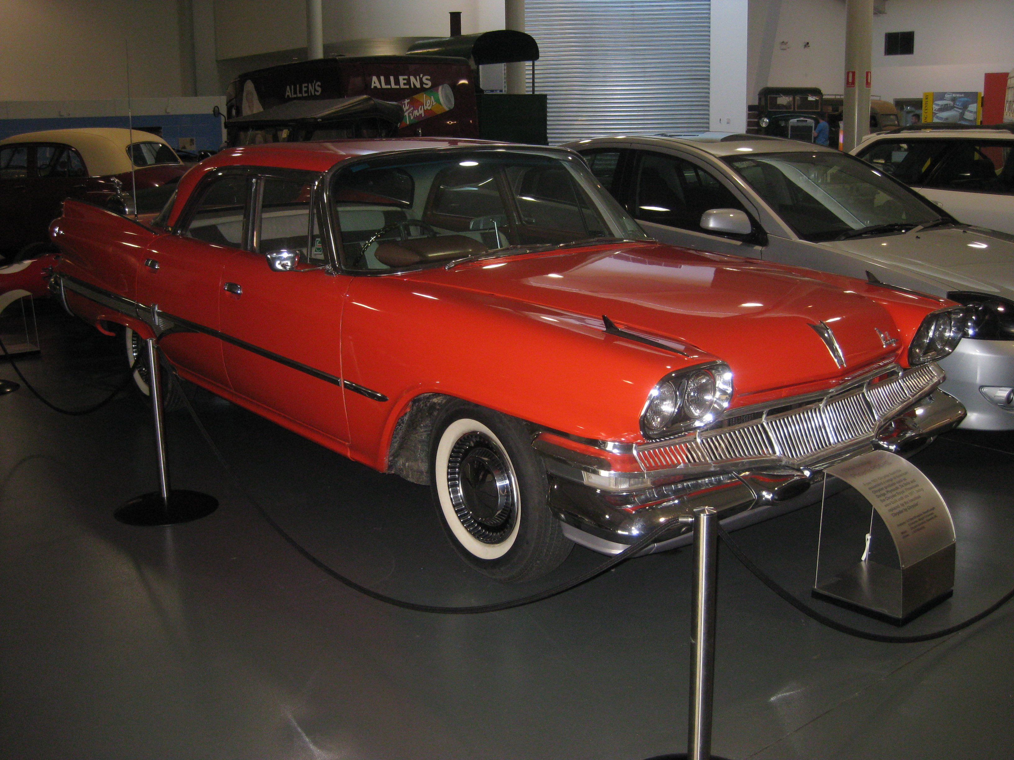 1960 Dodge Phoenix Sedan as produced by Chrysler Australia, based on the 1960 US Dodge Dart. The car was photographed at the National Motor Museum at Birdwood in South Australia.